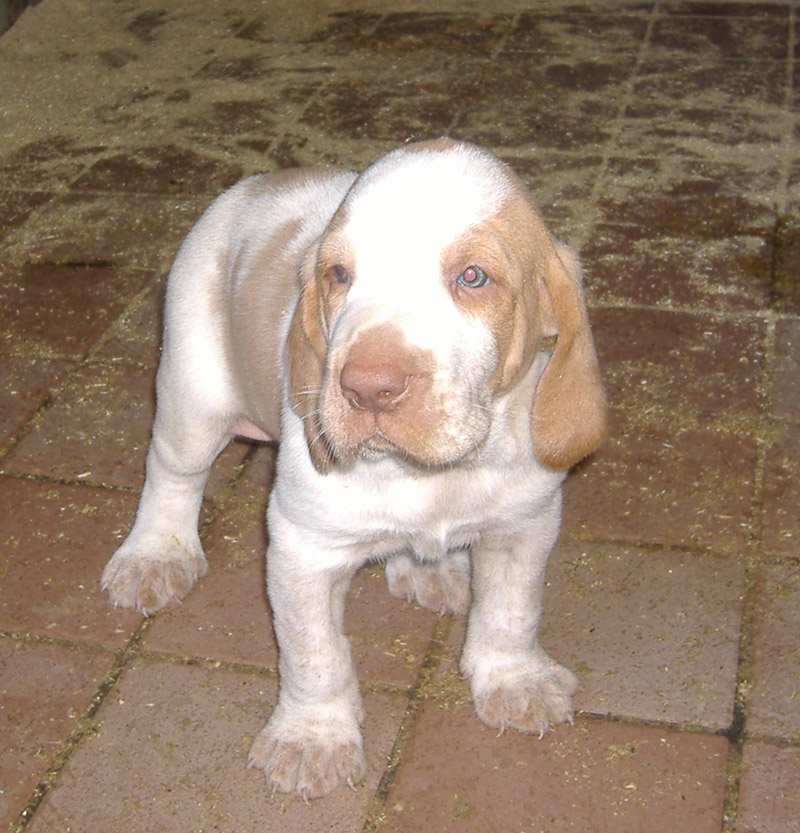 A Bracco Italiano puppy